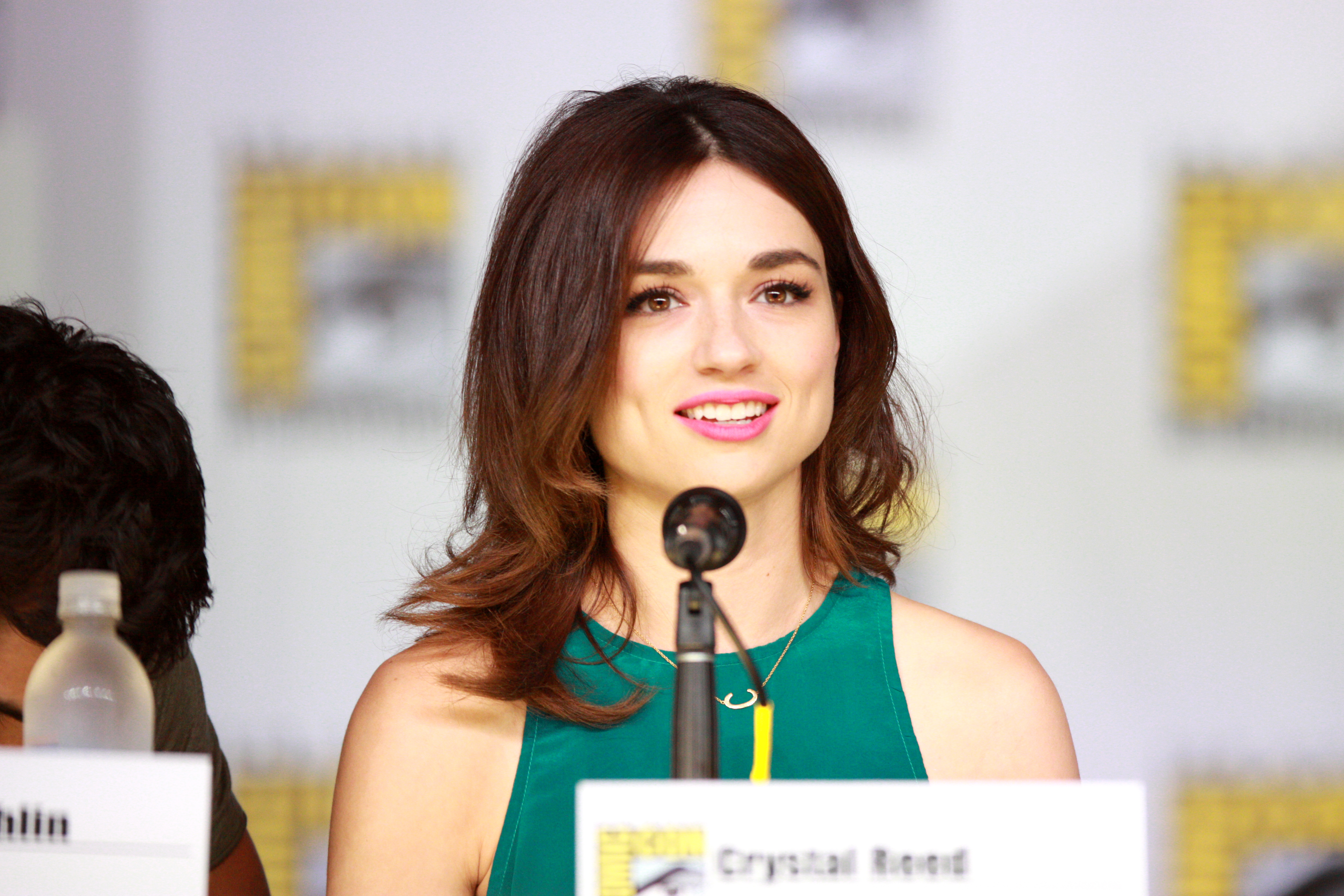 Crystal Reed speaking at the 2013 San Diego Comic Con International, for "Teen Wolf", at the San Diego Convention Center in San Diego, California.